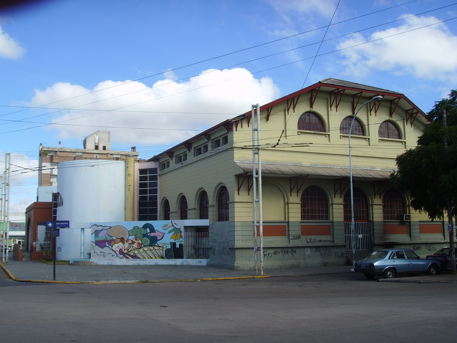 Centro Cultural San Vicente, Córdoba, Argentina. Built in 1886 as a marketplace, it was reinaugurated as a cultural center in 1981.